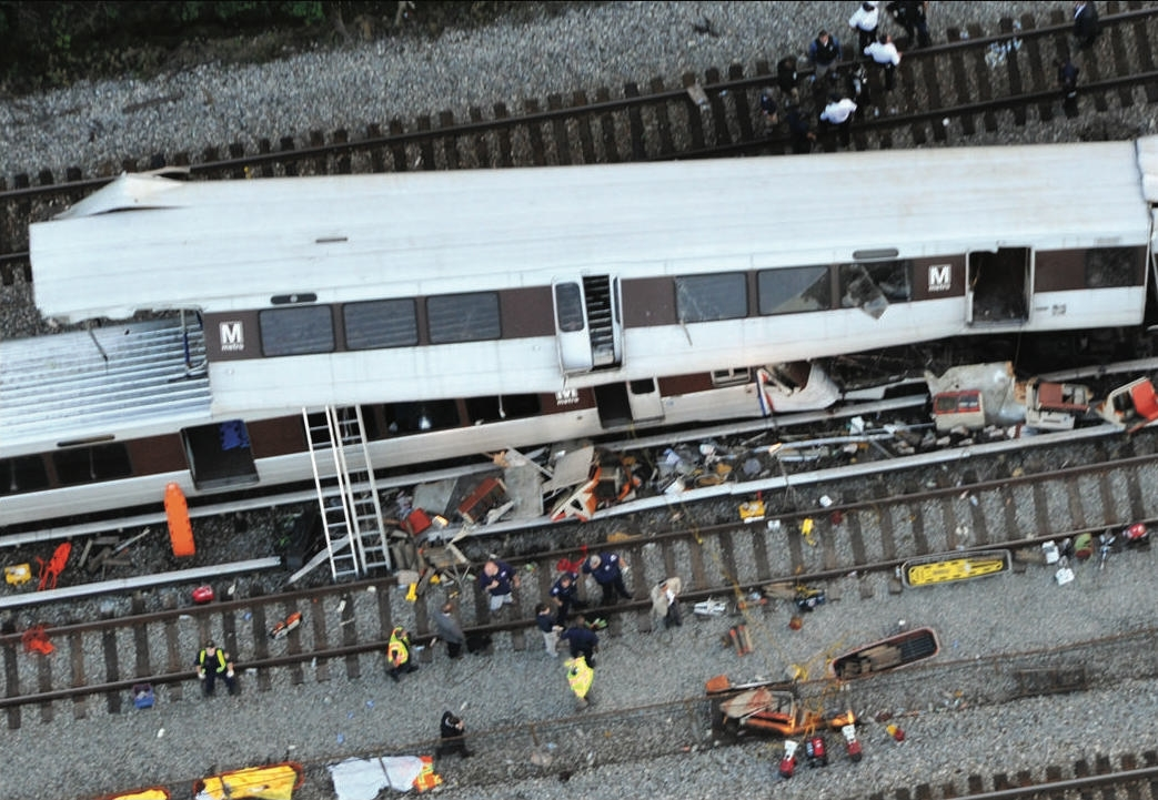 Aerial view of emergency responders at the Metrorail train crash on June 22, 2009. When two Metro trains collided, killing the train operator and eight passengers and injuring more than 75 others, scores of first responders led by the District of Columbia Fire Department and the Washington Metropolitan Police Department, along with other law enforcement agencies—including the FBI—arrived on the scene.